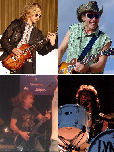 Ted Nugent in concert; 040601-N-8861F-008 Naval Support Activity, Naples, Italy (Jun. 1, 2004) - The "Motor City Madman," Ted Nugent, wails away on his guitar during a recent concert for Sailors and their families at the United Service Organization (USO) sponsored concert held at Naval Support Activity, Naples, support site in Gricignano. Nugent was joined by country music star Toby Keith, who also performed some recently released songs. Nugent is also a spokesman for National Field Archers Association (NFAA), Mothers Against Drunk Driving (MADD), Big Brothers & Big Sisters, and the Drug Abuse Resistance Education (D.A.R.E.) law enforcement program. Both singers will also be traveling to Germany, Kosovo and the Persian Gulf during the tour. U.S. Navy photo by Photographer's Mate 2nd Class Lenny Francioni